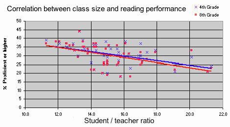 Correlation between class size and reading performance from the results of the U.S. National Assessment of Educational Progress reading tests given in 2005 to 4th and 8th graders